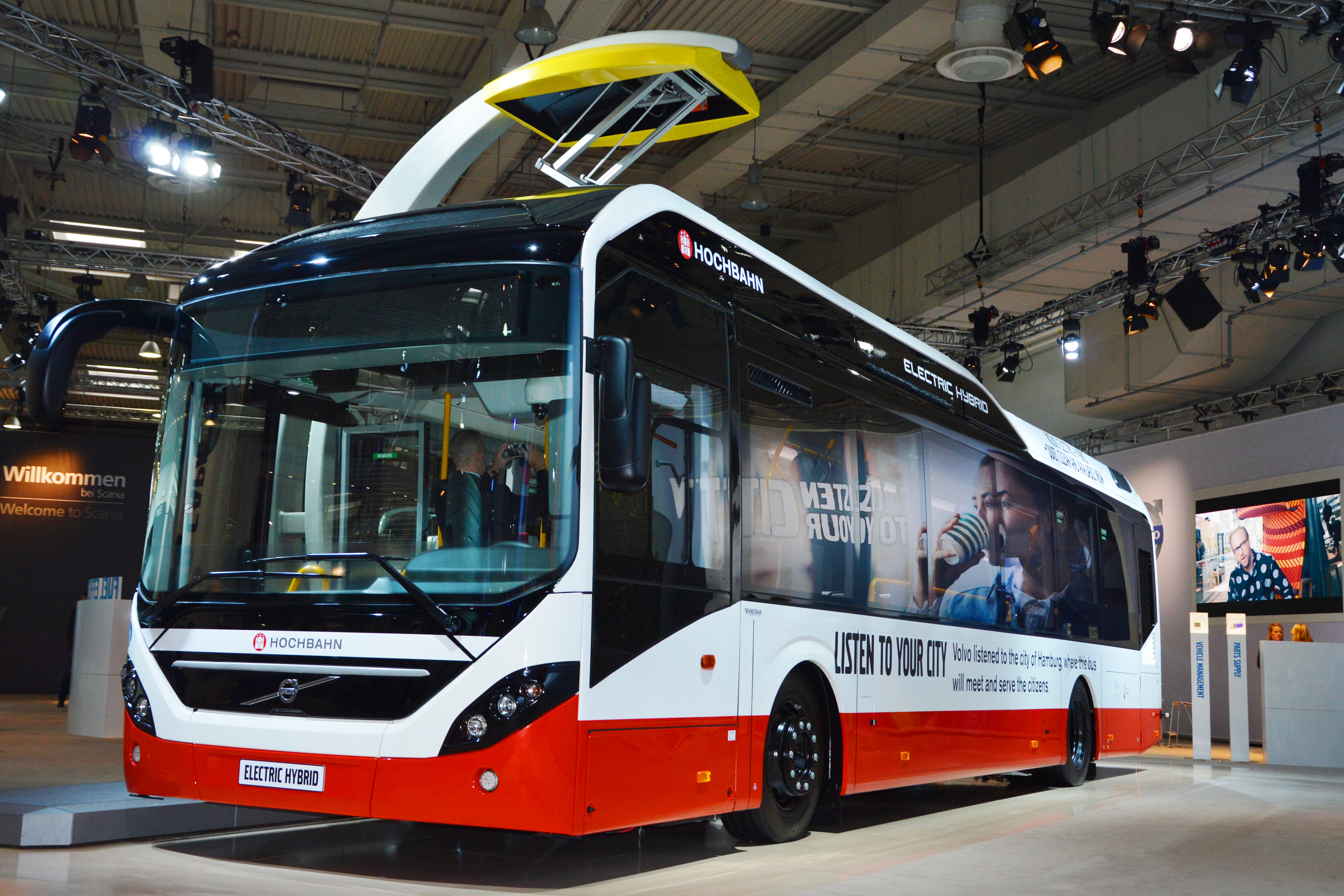 Volvo 7900 electric hybrid. Engines: 1 x Diesel 240 hp Volvo D5K 240, 4-cylinder (common rail injection) Euro 6 and 1 x electric motor 150 kW Volvo I-SAM. Length: 12 m. For up to 95 passengers (incl. 32 + 1 seats). Since December 2014 in use at Hamburger Hochbahn